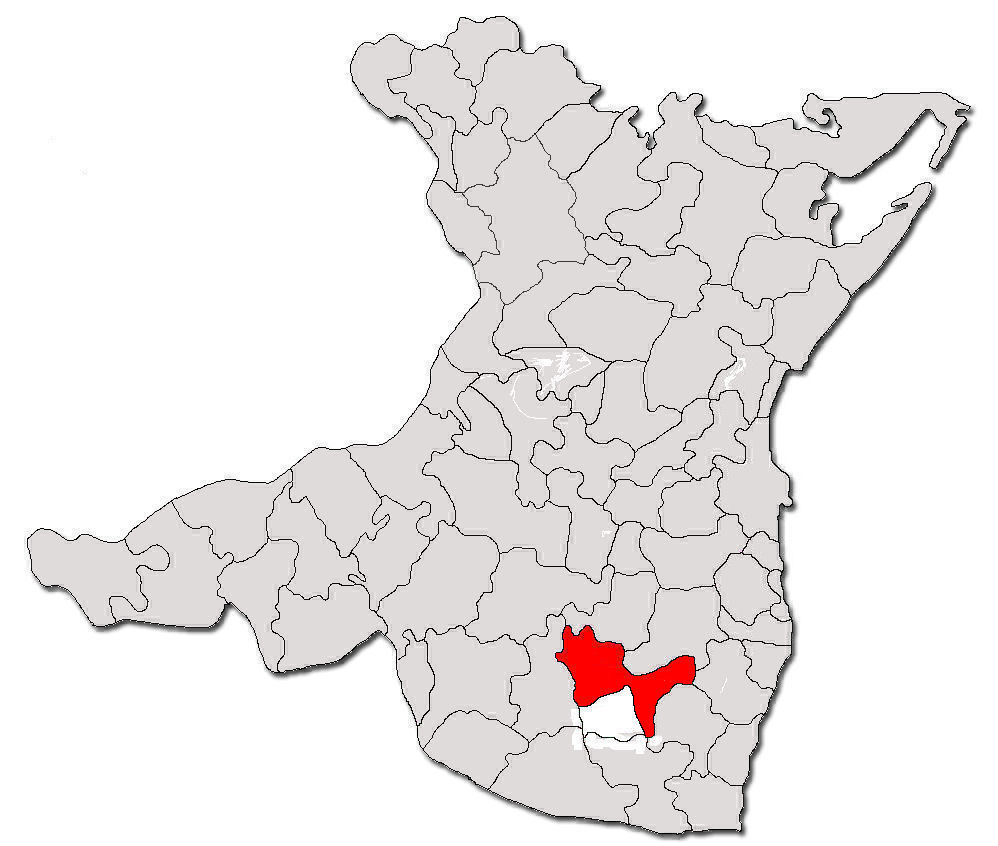 Contour map of commune Amzacea